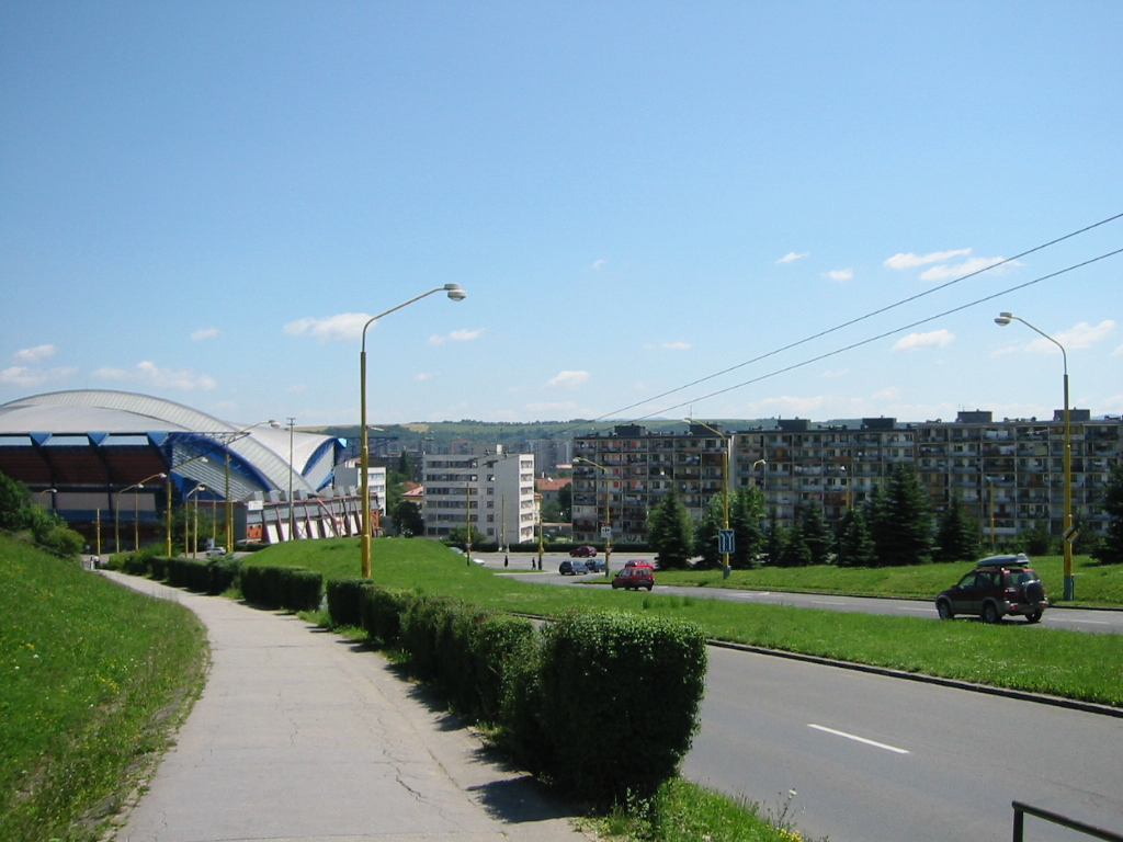 Ice Rink Kosice